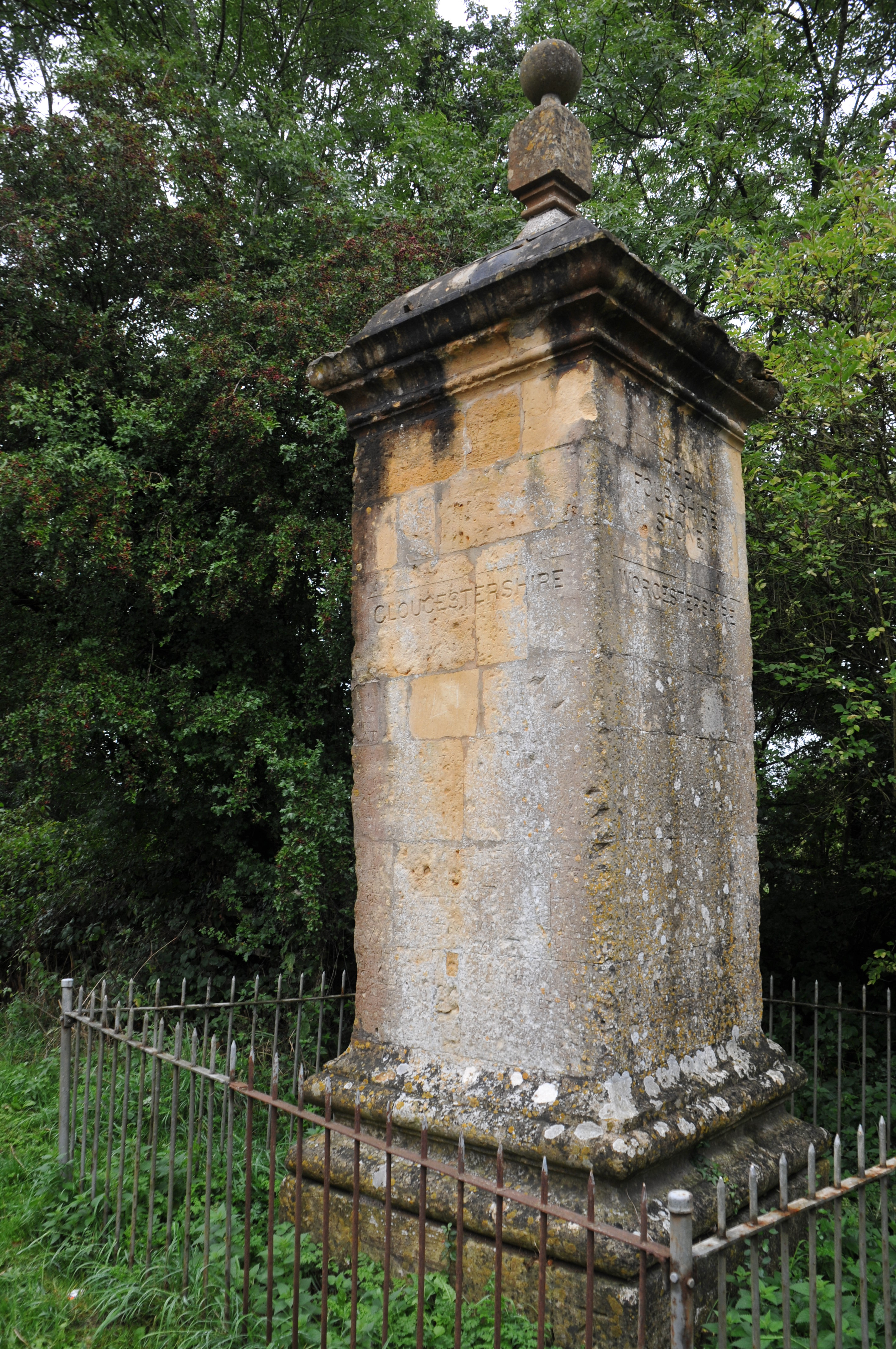 This stone once marked the point where four English counties met; it now marks only three. It was reputedly the inspiration for J.R.R. Tolkien's "Three-Farthing Stone."